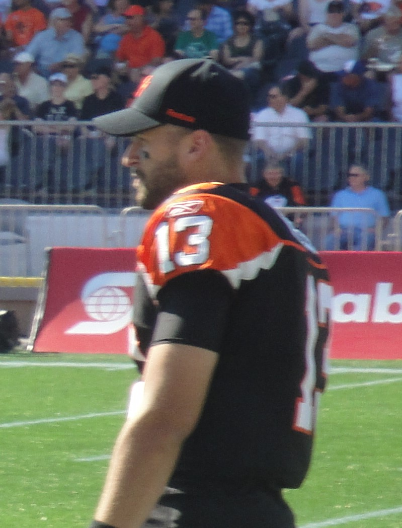 Mike Reilly before a BC Lions game on September 10, 2011.